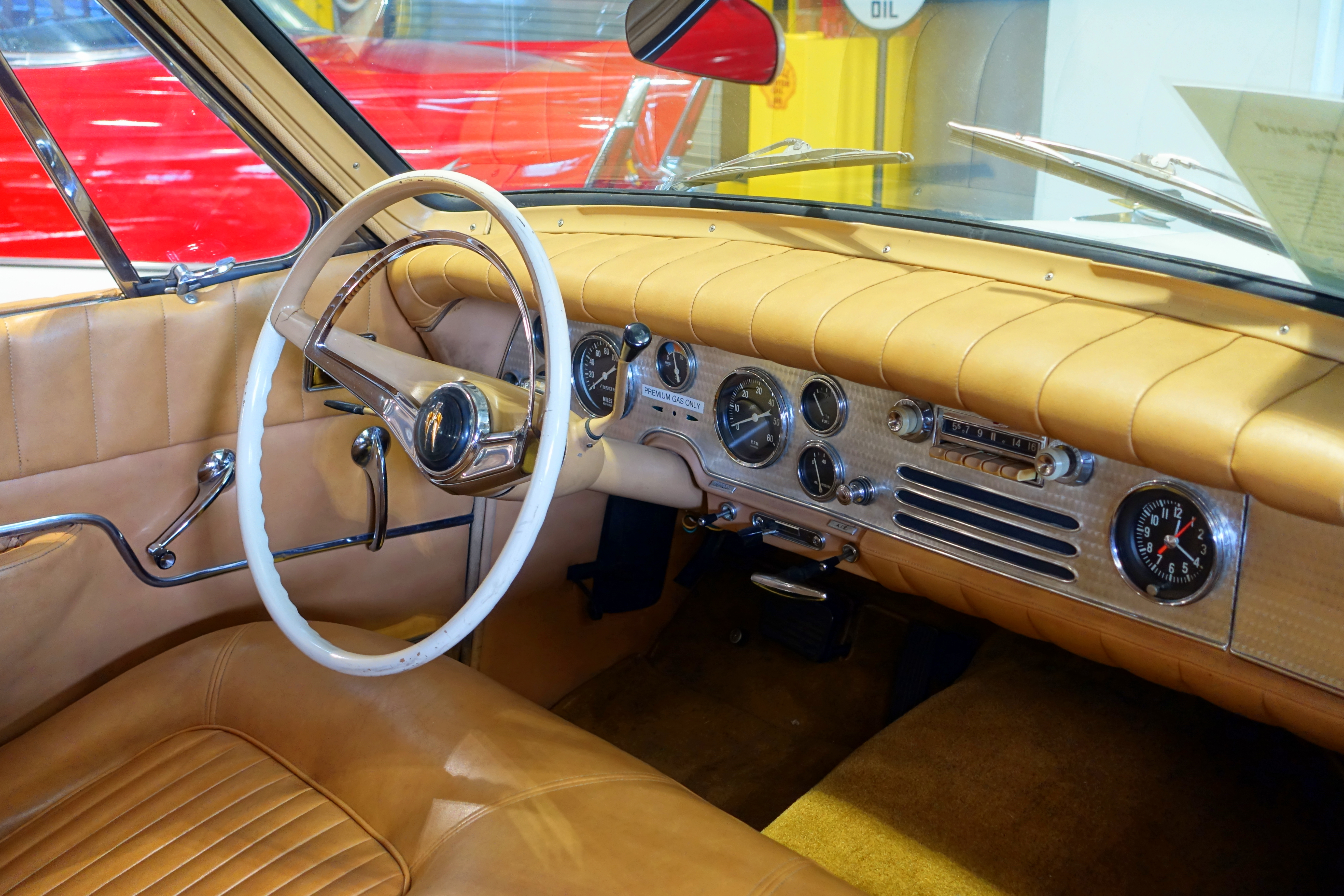 Exhibit in the Automobile Driving Museum - El Segundo, California, USA.